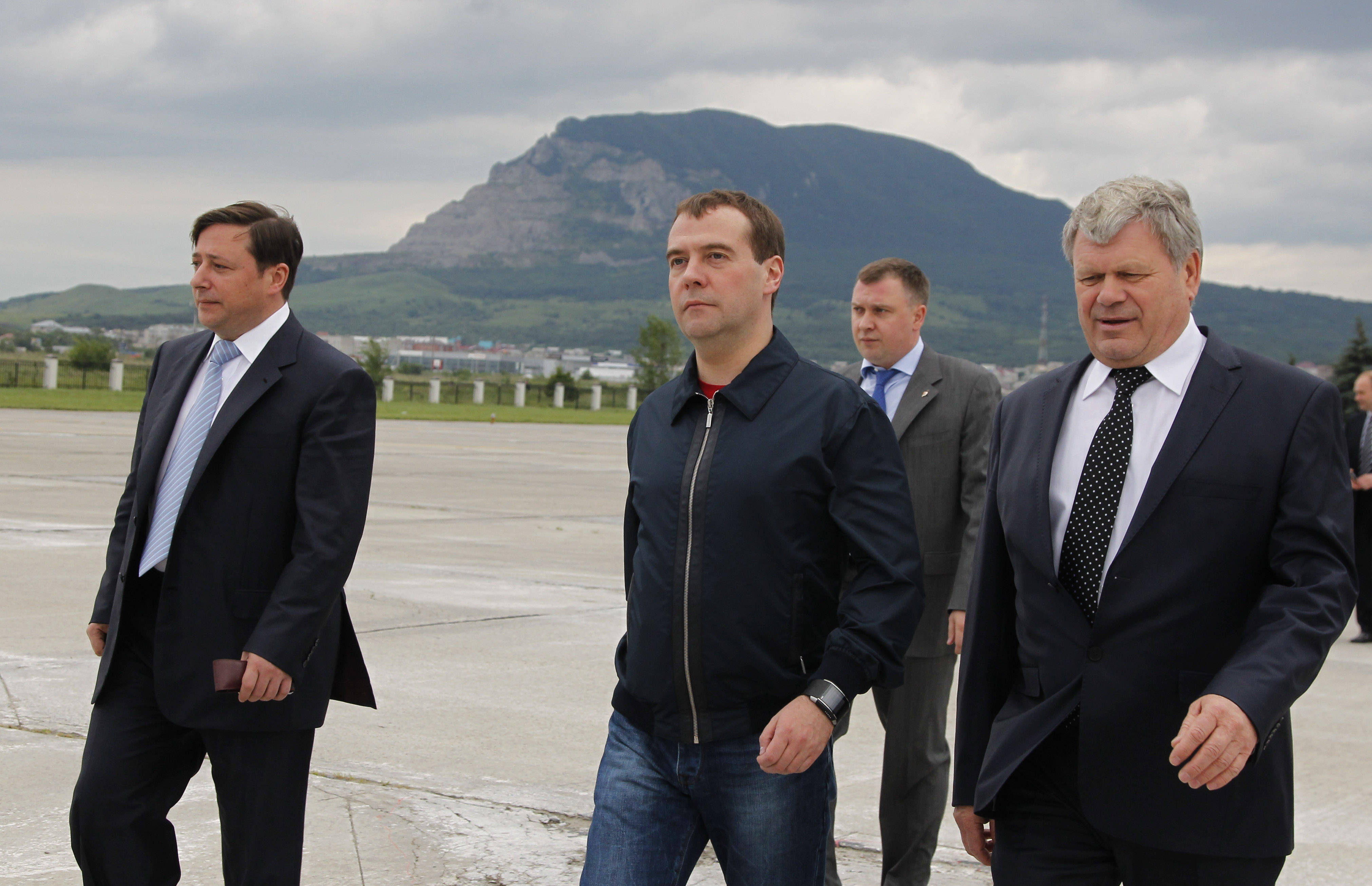 Deputy Prime Minister and Presidential Envoy to the North Caucasus Federal District Aleksandr Khloponin, Russian Prime Minister Dmitry Medvedev and Governor of Stavropol Krai Valery Zerenkov at Mineralnye Vody Airport.